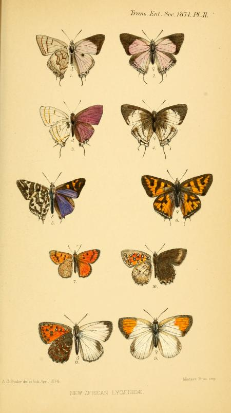 Trimen, 1874 On some new species of South African Lycaenidae Trans. ent. Soc. Lond. 1874 (3) : 329-342 EXPLANATION OF PLATE II. The locality of each specimen figured is given after its name and sex. Figs. 1 and 2. Iolaus Mimosae, Trimen Male and Female {Male, Tsomo Eiver,Kaffraria ; Female , Grahamstown, Cape Colony). = Epamera mimosae Trimen, 1874 Figs. 3 and 4. Hypolycaena Seamani, Trinien, Male and Female (Pinetown (?),Natal). Figs. 5 and 6. Aphnaeus namaquus, Trimen, Male and Female(Male Oograbies;, Komaggas ; Little Namaqualand, Cape Colony). = Aphnaeus namaquus (Trimen, 1874) Fig. 7. Zeritis Lycegenes, Trimen, Female ? (Mooi River, Natal)= Poecilmitis lycegenes (Trimen, 1874) Figs. 8 and 9.Zeritis Barklyi, Trimen, Male and Female (Male, between Komaggasand Spectakel ; Female , Steinbokfontein, Little Namaqualand, Cape Colony)= Zeritis barklyi Trimen, 1874 Fig. 10.Zeritis Orthrus, Trimen, Male (Bushman's River, Natal)= Zeritis orthrus Trimen, 1874